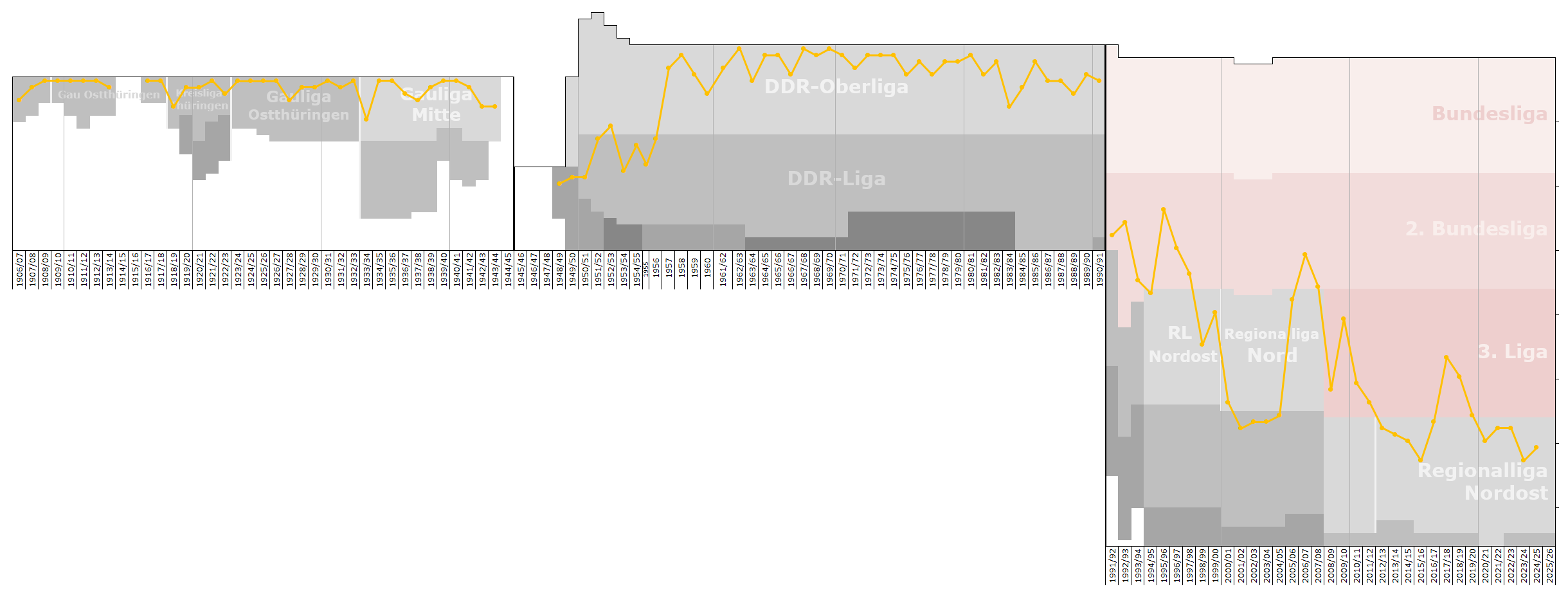 Chart of end-season table positions of FC Carl Zeiss Jena in the football league system of Germany and GDR. Data source: RSSSF, wikipedia, f-archiv.de, fussball.de